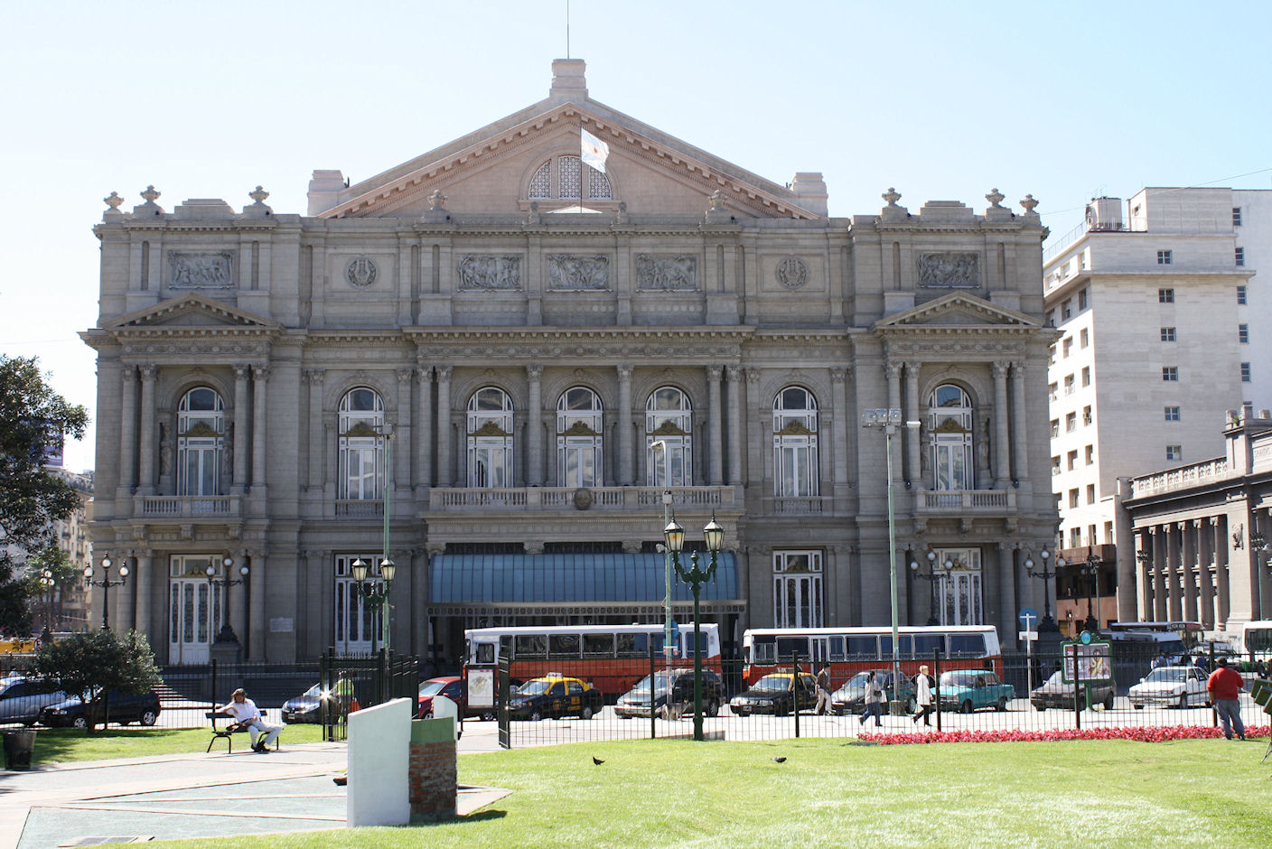 Western entrance of the Colón Opera House seen from Lavalle Square, Buenos Aires.